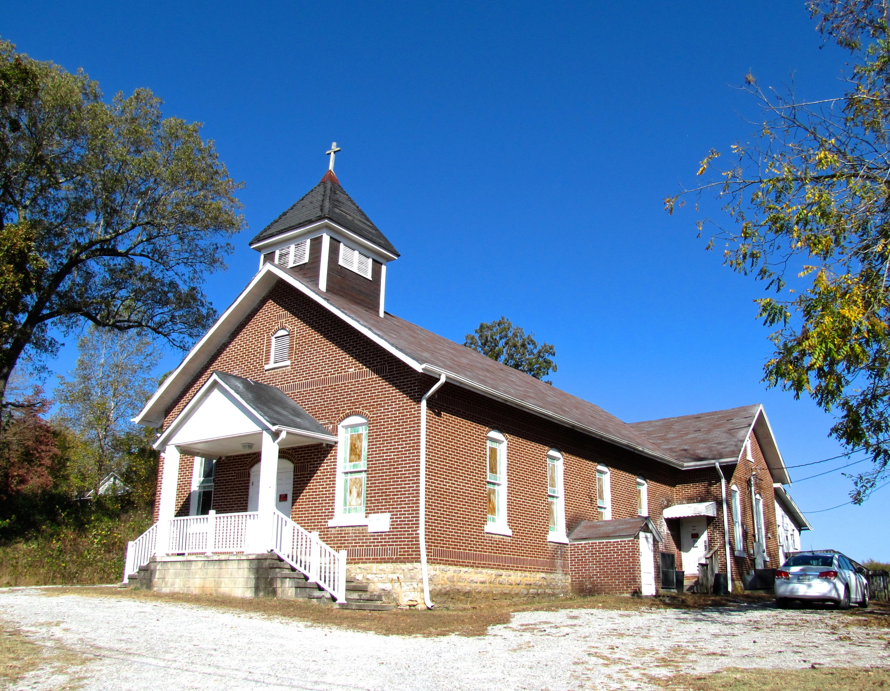 An old church, now home to South Lawrence Head Start, in Iron City, Tennessee, United States.